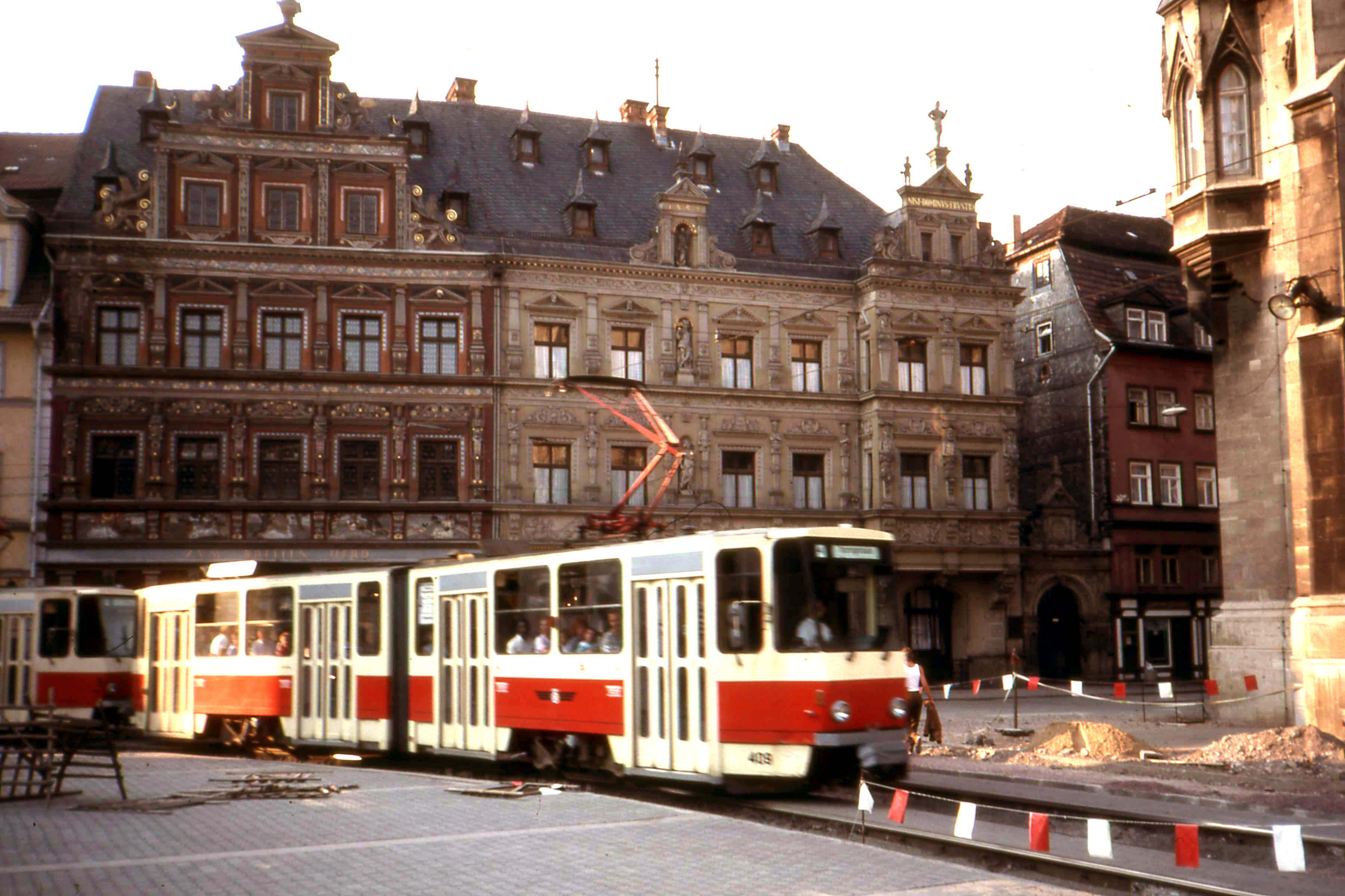 Tatra KT4D trams on Fischmarkt in Erfurt, former East Germany. Looks like tram no 408...too slow a speed in the dim light with Kodak 64 slide film, coupled with a similar KT4D unit. Erfurt had one of the most modern systems in the GDR with no two-axle trams left. In the background you can see the Haus zum Breiten Herd and the Gildehaus. 408 was one of the first KT4D trams in Erfurt,in about 1976. Of the original 155, 63 were modernised and in 2009 only about 20 were remaining in service, including two original KT4Ds.